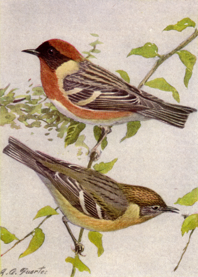 BAY-BREASTED WARBLER. Male and Female.